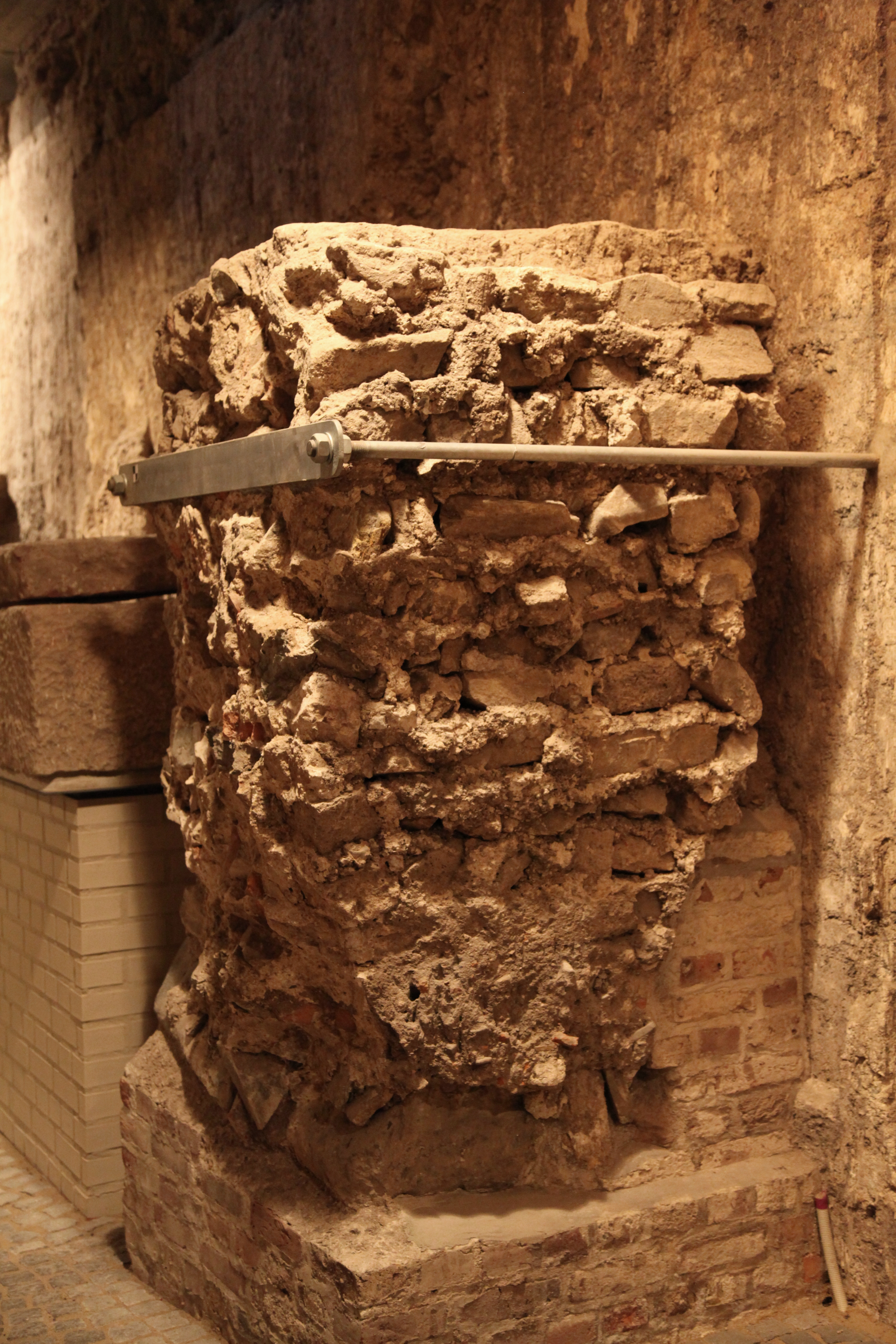 Excavations below the Cologne Cathedral